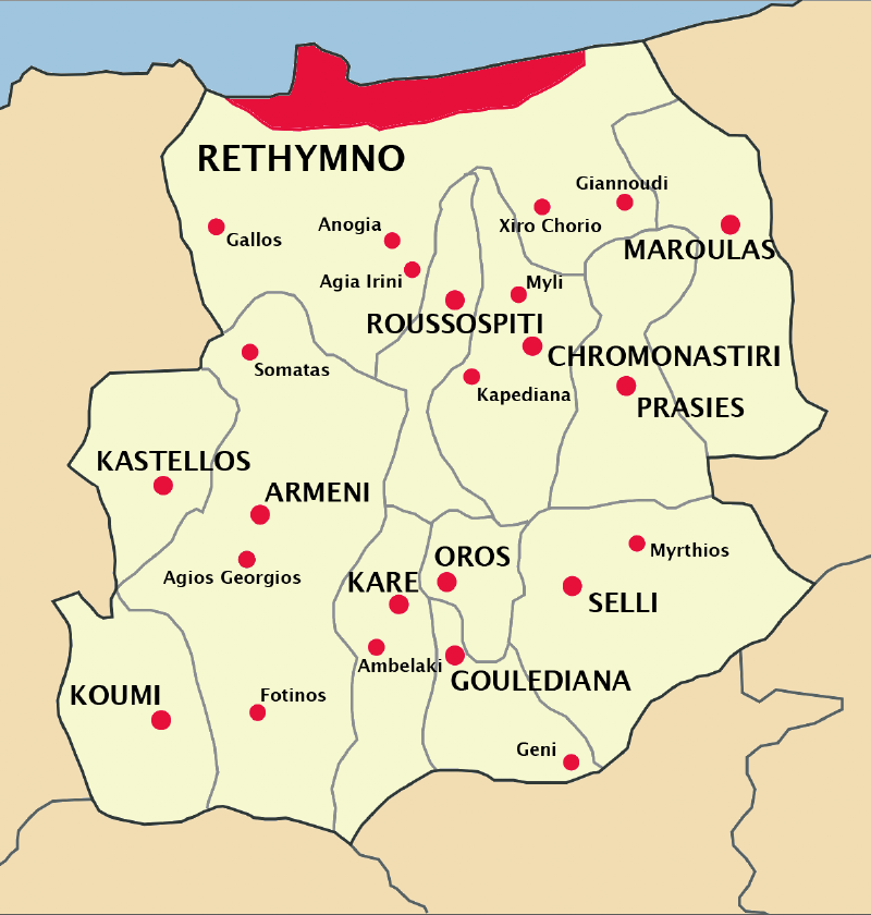 Municipal districts of rethymno, Greece